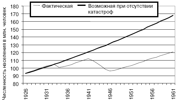 Russian demography